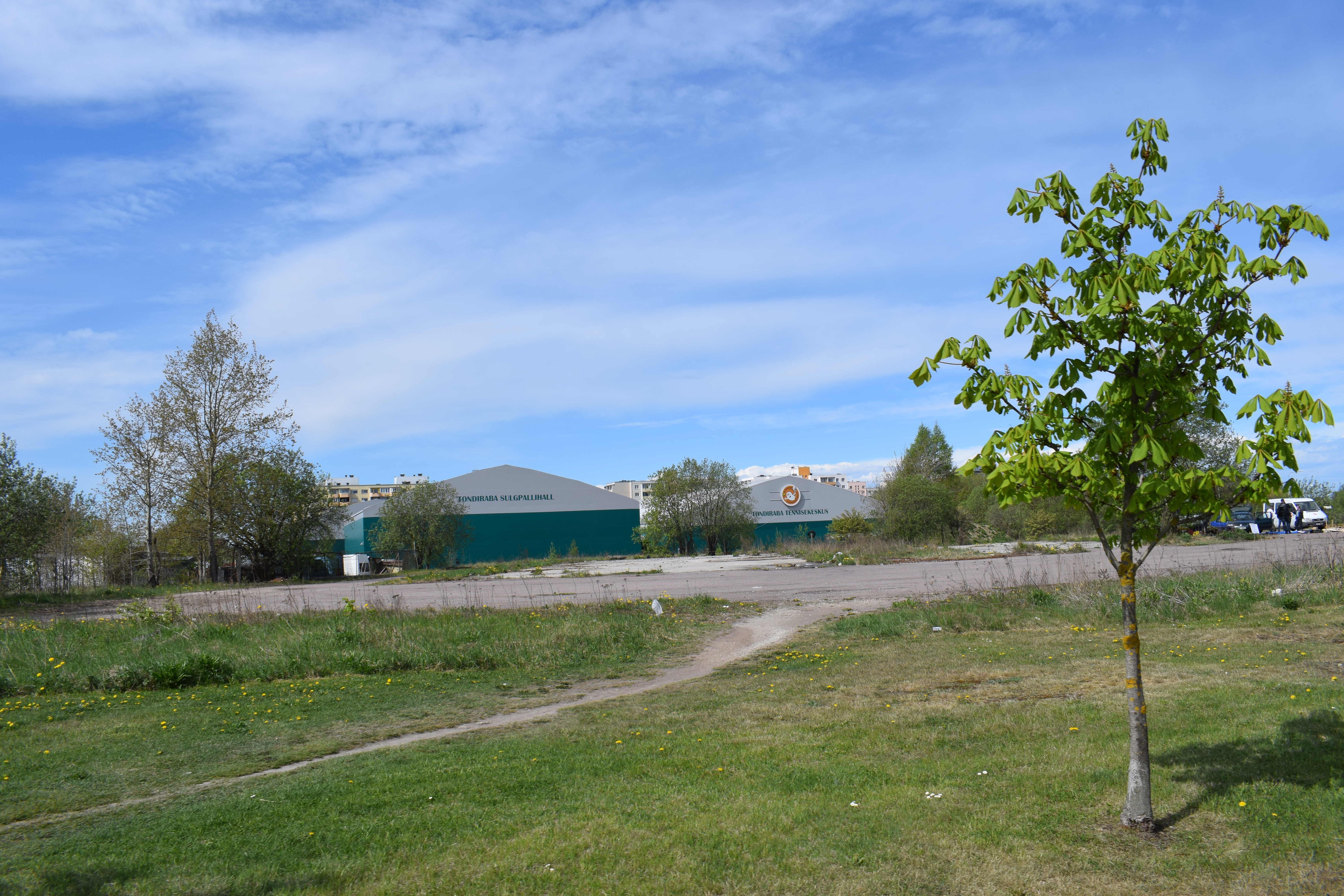 Tondiraba Tennis Center